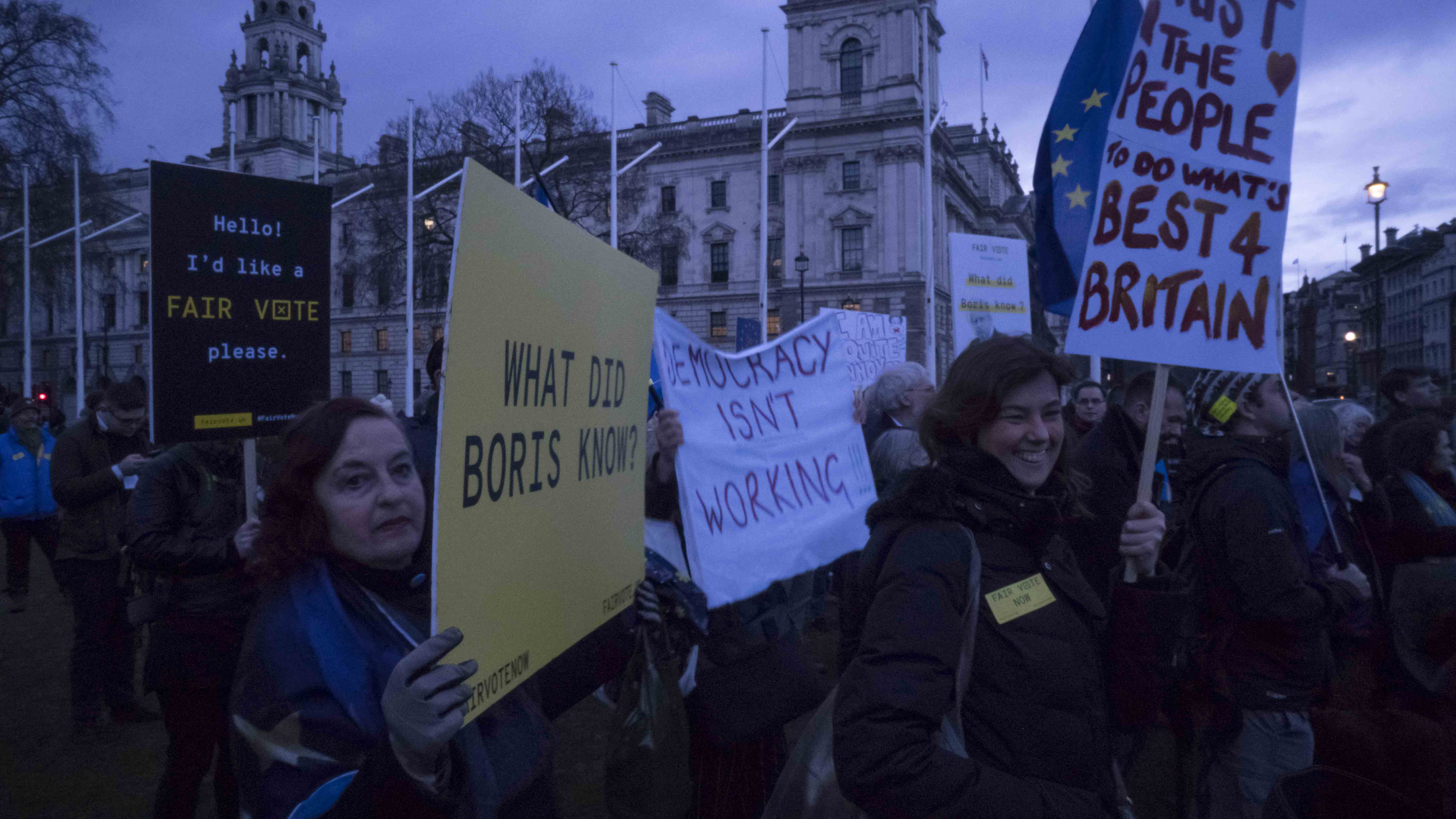 A protest following the Cambridge Analytics and Facebook data scandal with Christopher Wylie and Shahmir Sanni.